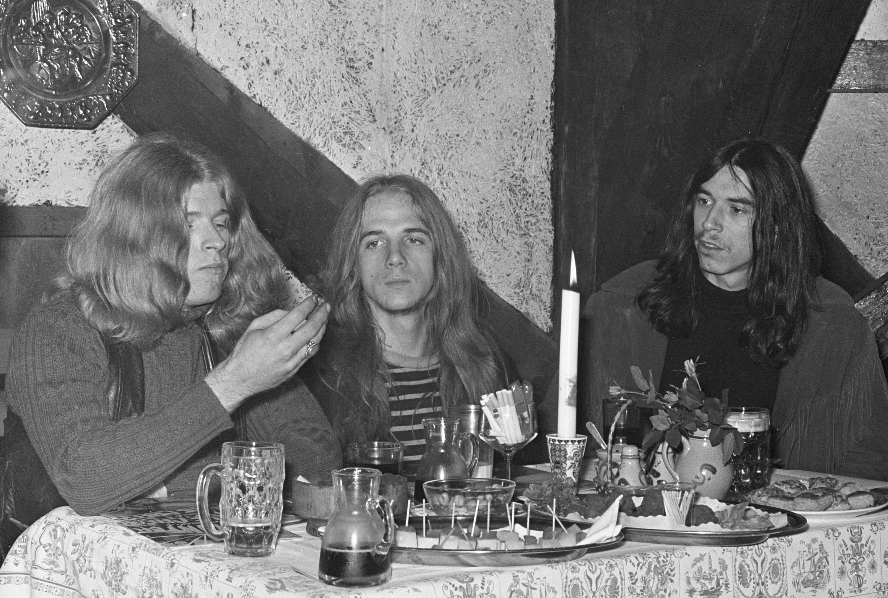 American beat group Blue Cheer "gave press conference in Amstelveen on the meal, from left to right [unknown], Richard" Dickie "Peterson, Paul Whaley and Randy Holden